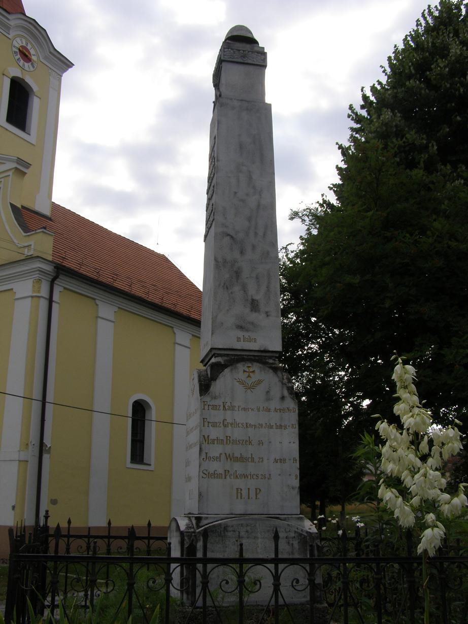 The monument of the World War in Alsószölnök